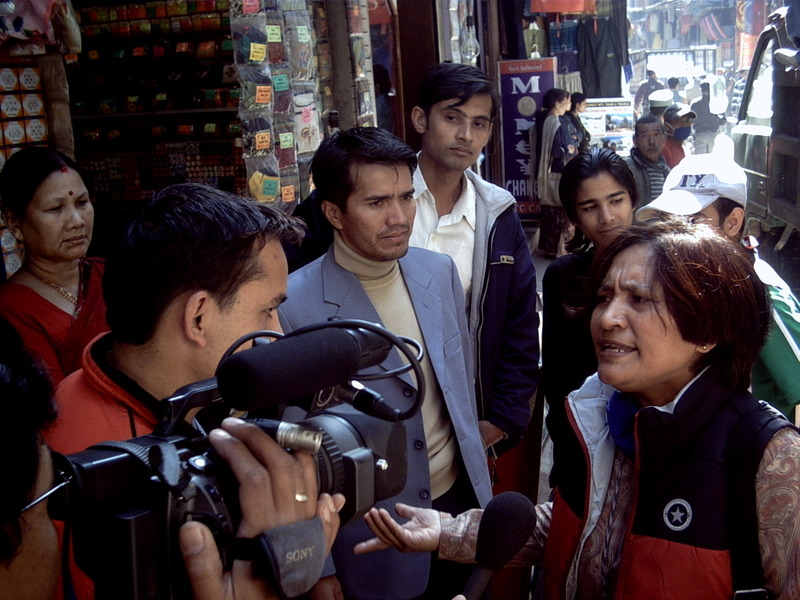 Hisila Yami being interviewed by AP about a Maoist garbage removal program in Thamel, Kathmandu.